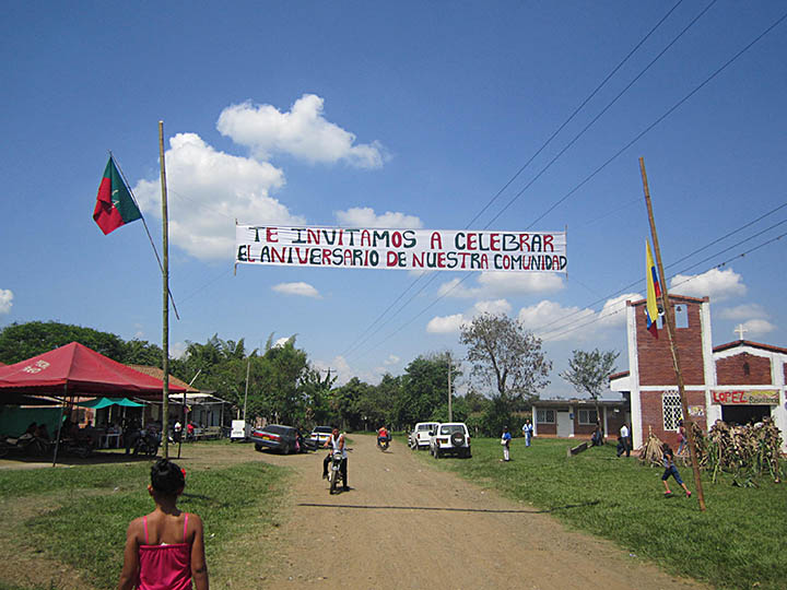 Indigenous reservation of López Adentro